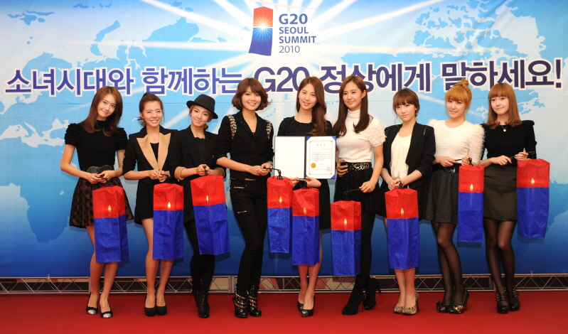 Girls' Generation has been chosen as the G20 Star Supporters